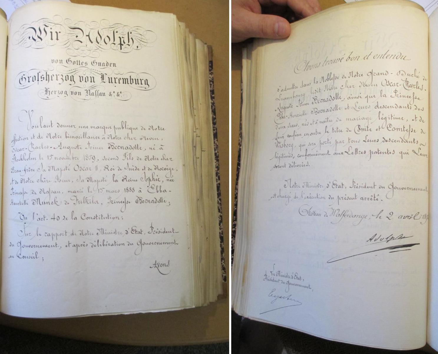 Letters patent issued by Grand Duke Adolph of Luxembourg re: titles of nobility for his nephew Prince Oscar Bernadotte & familyPlace: National Archives, Luxembourg City, Luxembourg